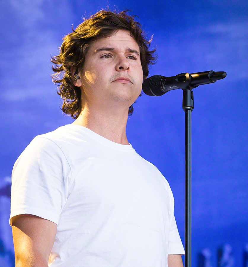 Lukas Graham at the minor stage during Stavernfestivalen in Stavern on 09. July 2016. Lineup:Lukas Graham (vocal)Unidentified (drums)Unidentified (bass)Unidentified (keyboard)Unidentified (trombone)Unidentified (baritone saxophone)Unidentified (trumpet)